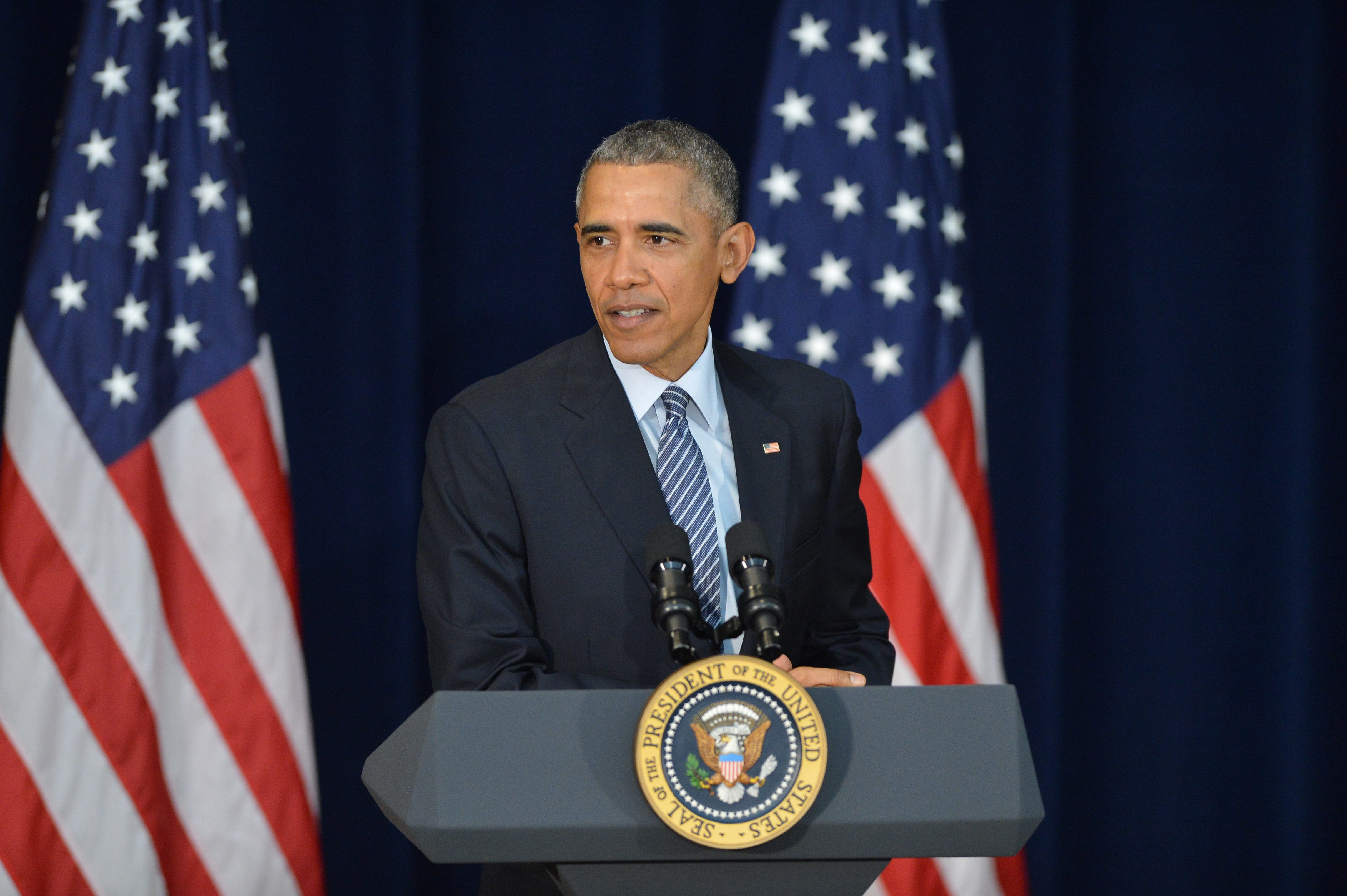 President Barack Obama delivers remarks at the 2016 Chief of Missions Conference in Washington, D.C. on March 14, 2016. [State Department Photo/Public Domain]